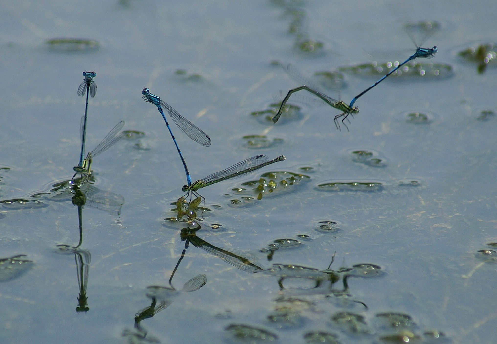 Azure Damselfly laying eggs